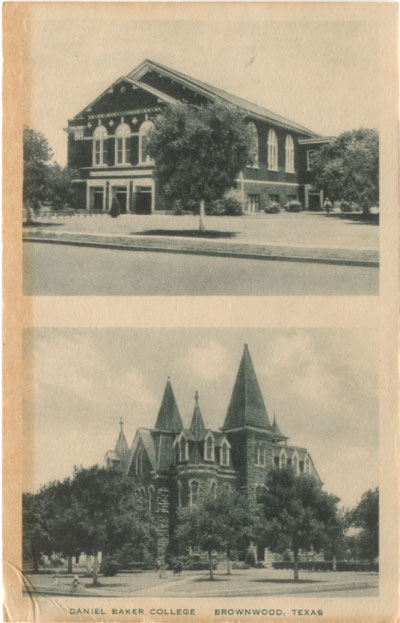 Daniel Baker College (c. 1895) — in Brownwood, Texas. Now the Coggin Campus of Howard Payne University.